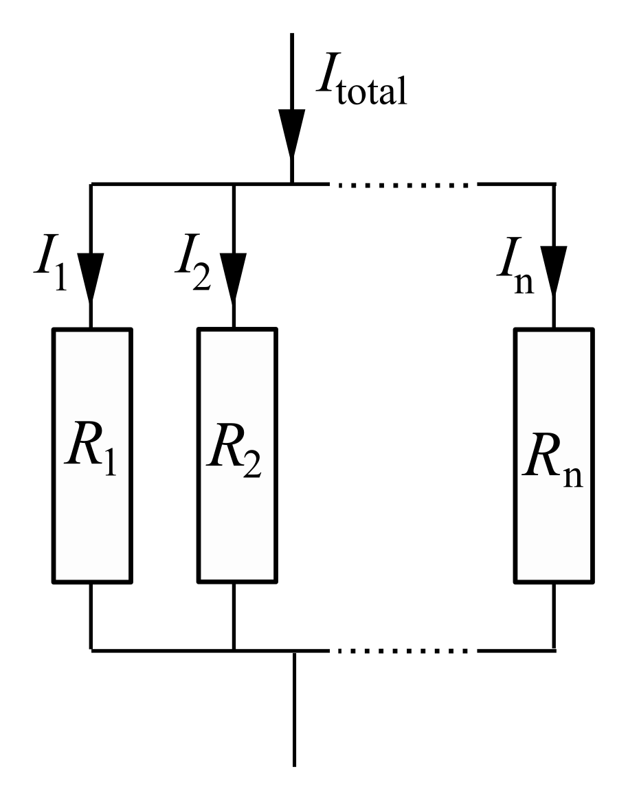 Parallell resistors